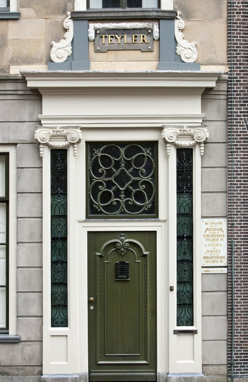 The front door of Foundation House on Damstraat 21, Haarlem, The Netherlands.